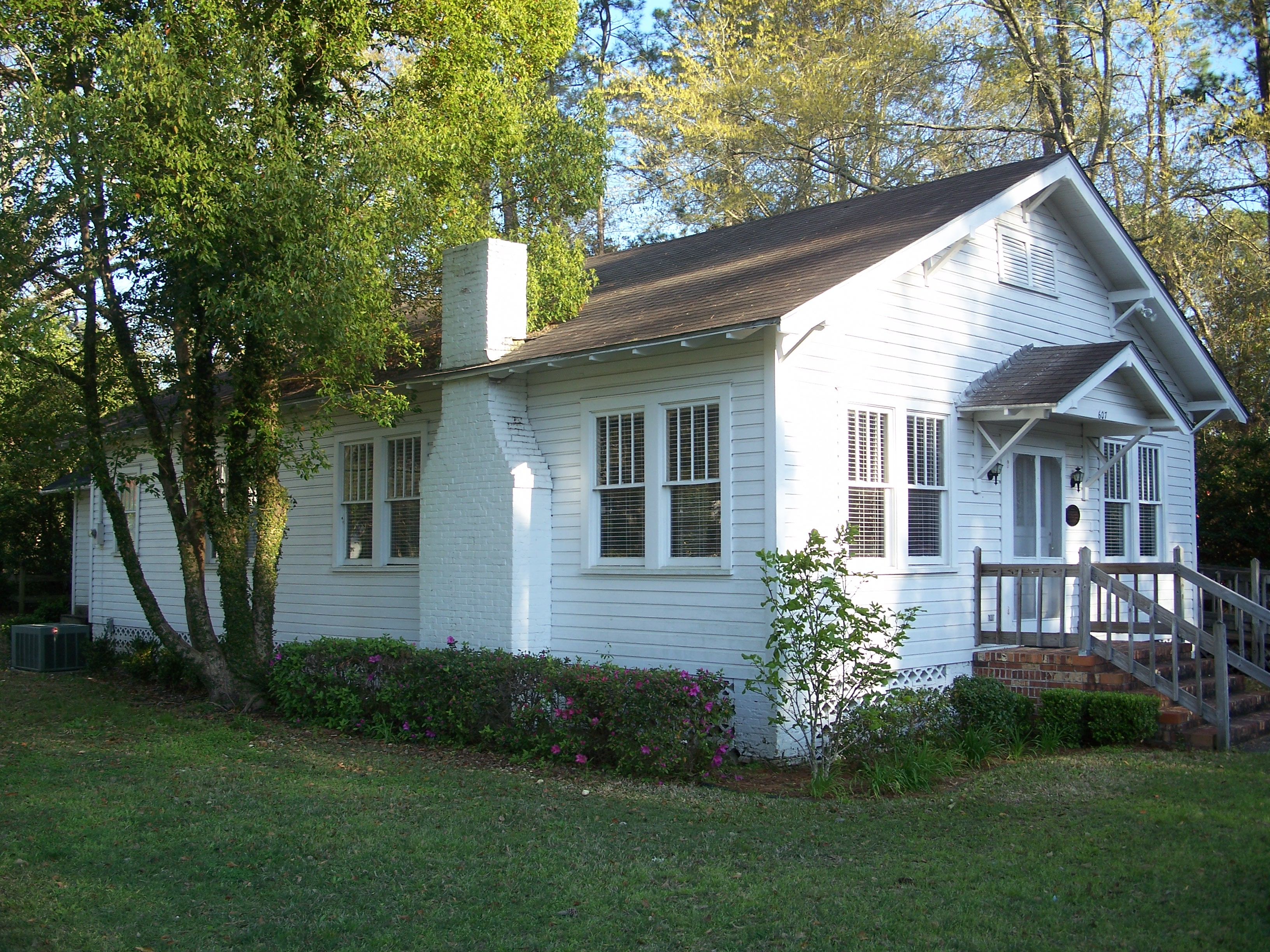 Woman's Club of Chipley, Florida